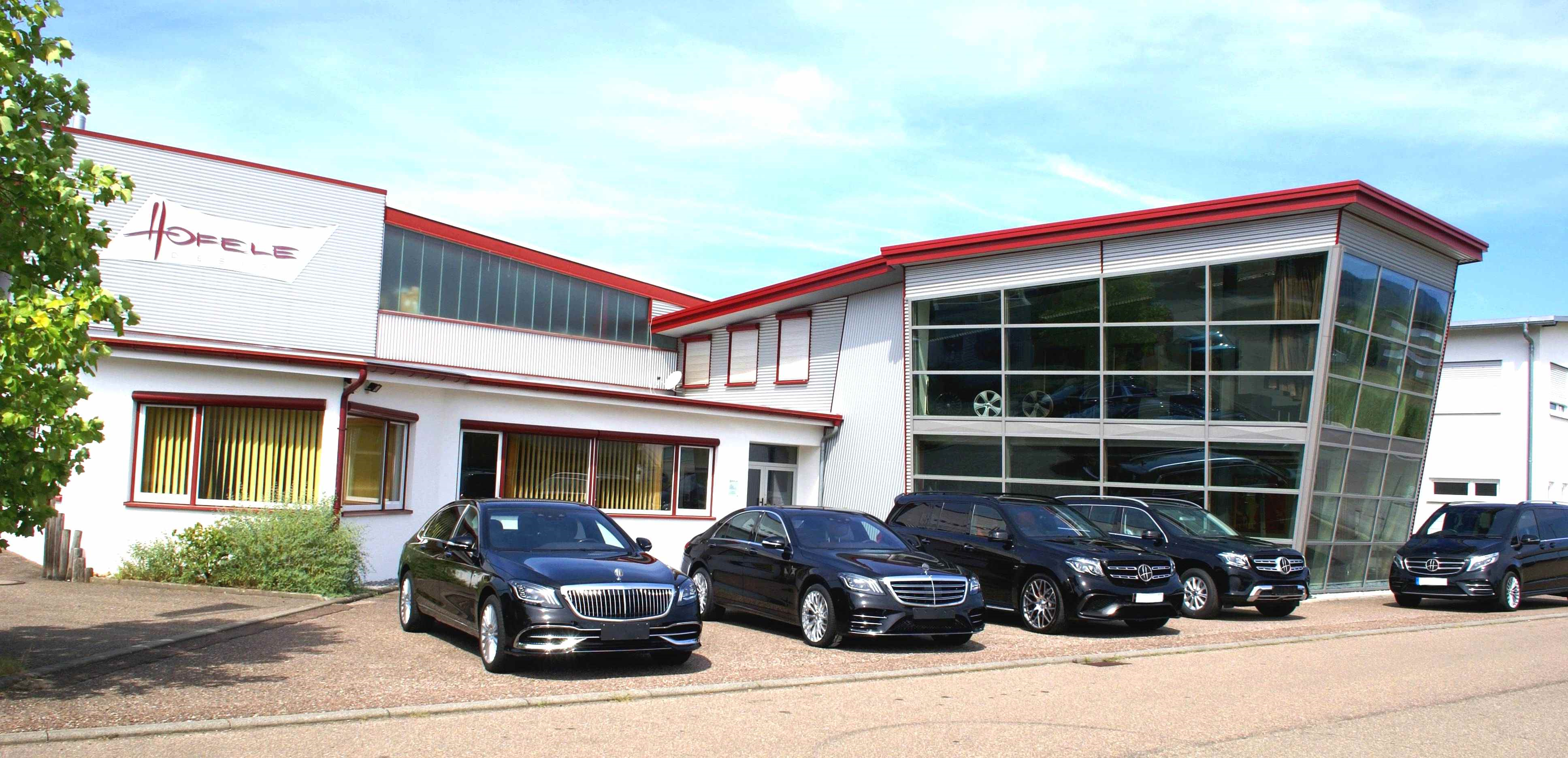 Photo of Hofele-Design's factory in Donzdorf, Germany